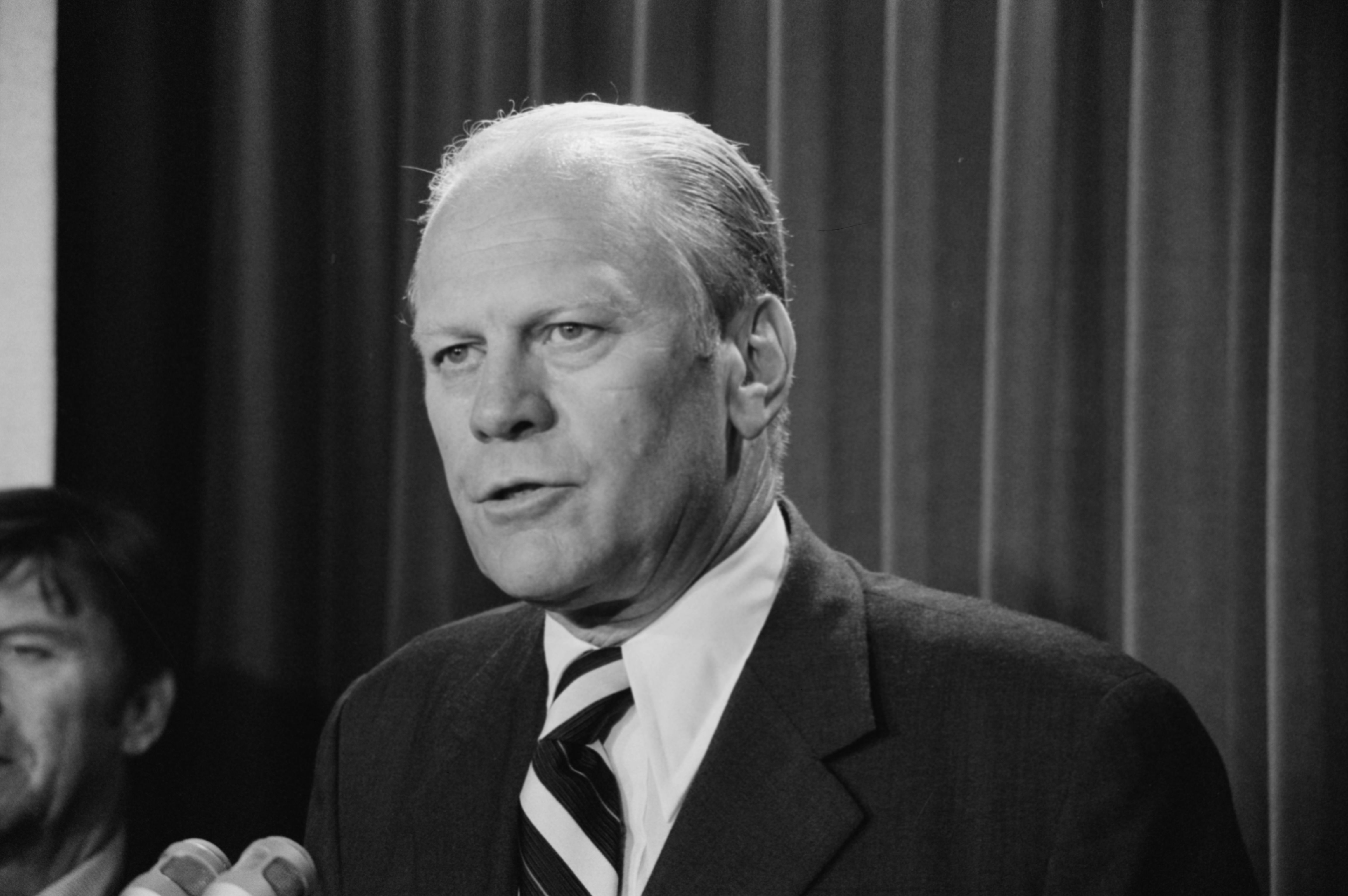 U.S. President Gerald Ford speaking into microphones.